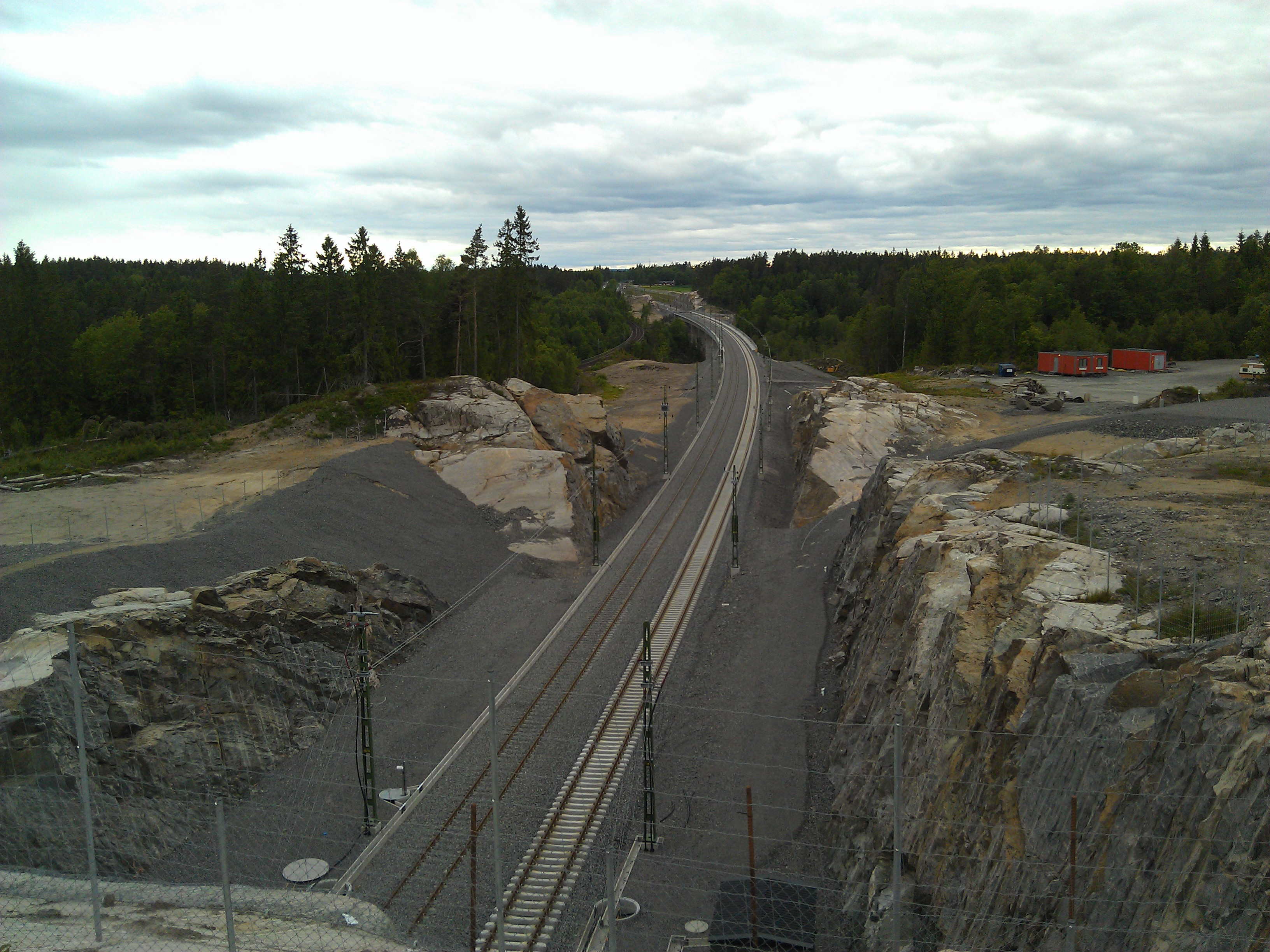 Velanda bridge during late stage of construction. Located south of Trollhättan, Sweden.